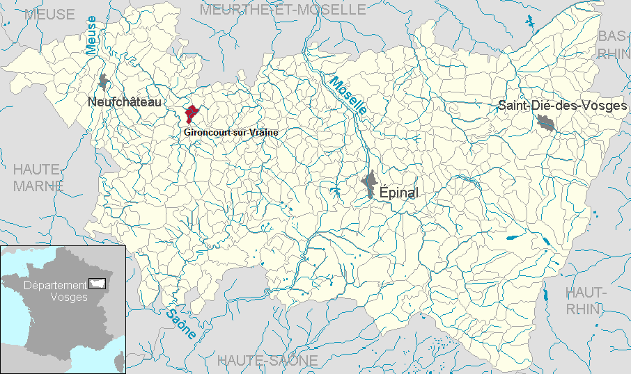 Gironcourt-sur-Vraine in the department of Vosges, Lorraine, France